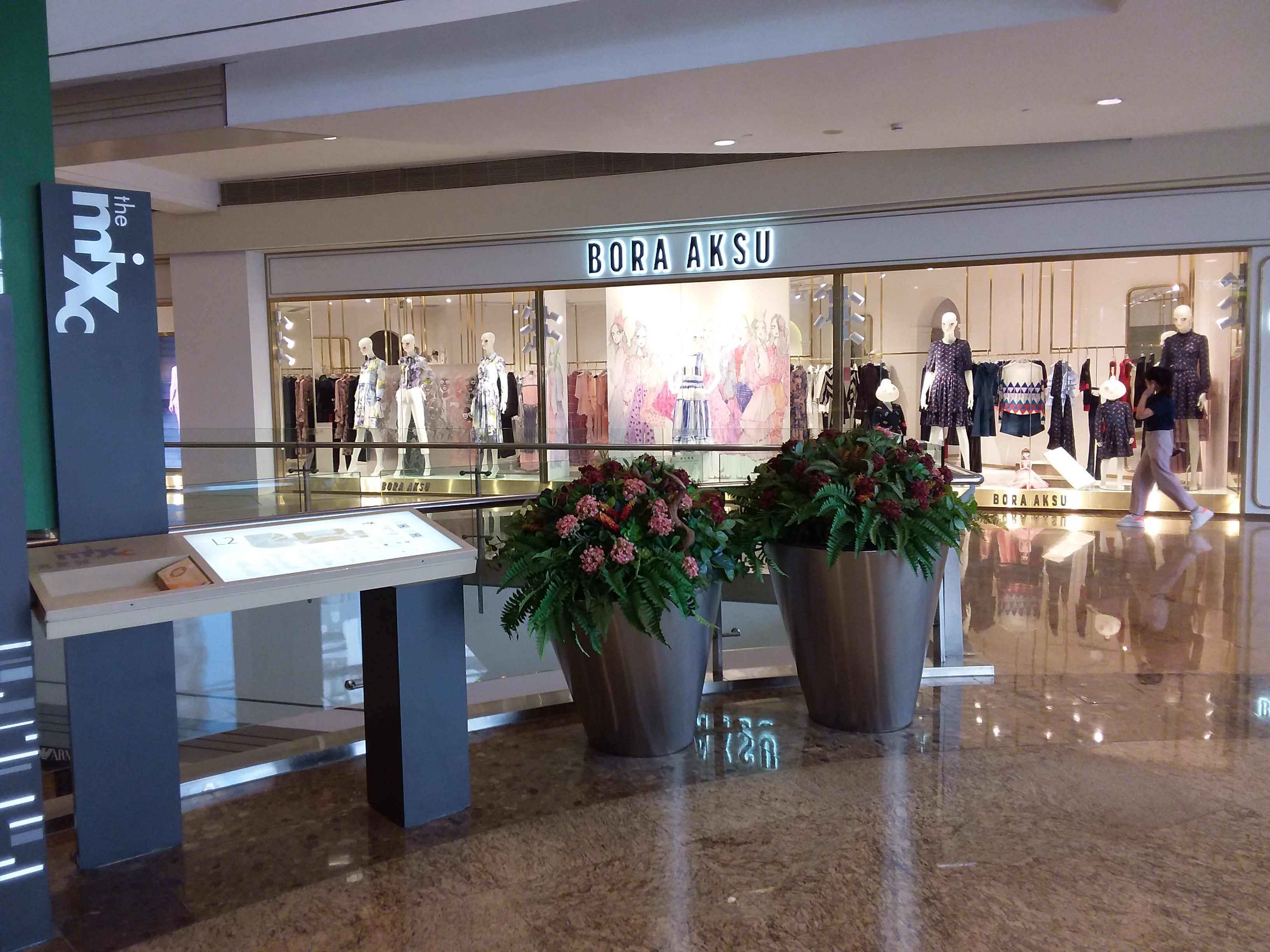 SZ 深圳 Shenzhen 羅湖區 Luohu 華潤萬象城 MixC mall in August 2018